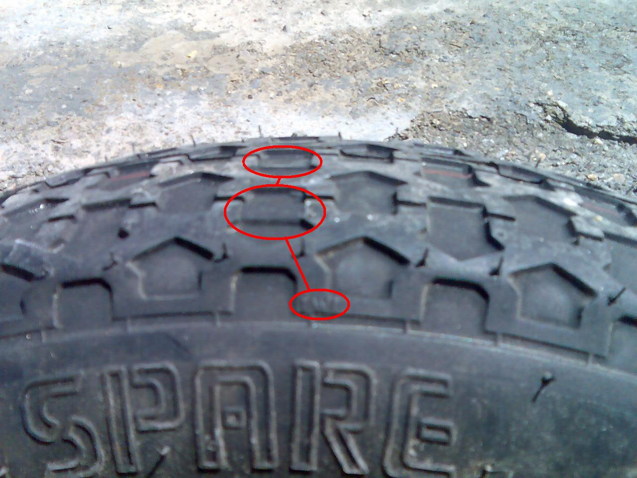 Treadwear indicators